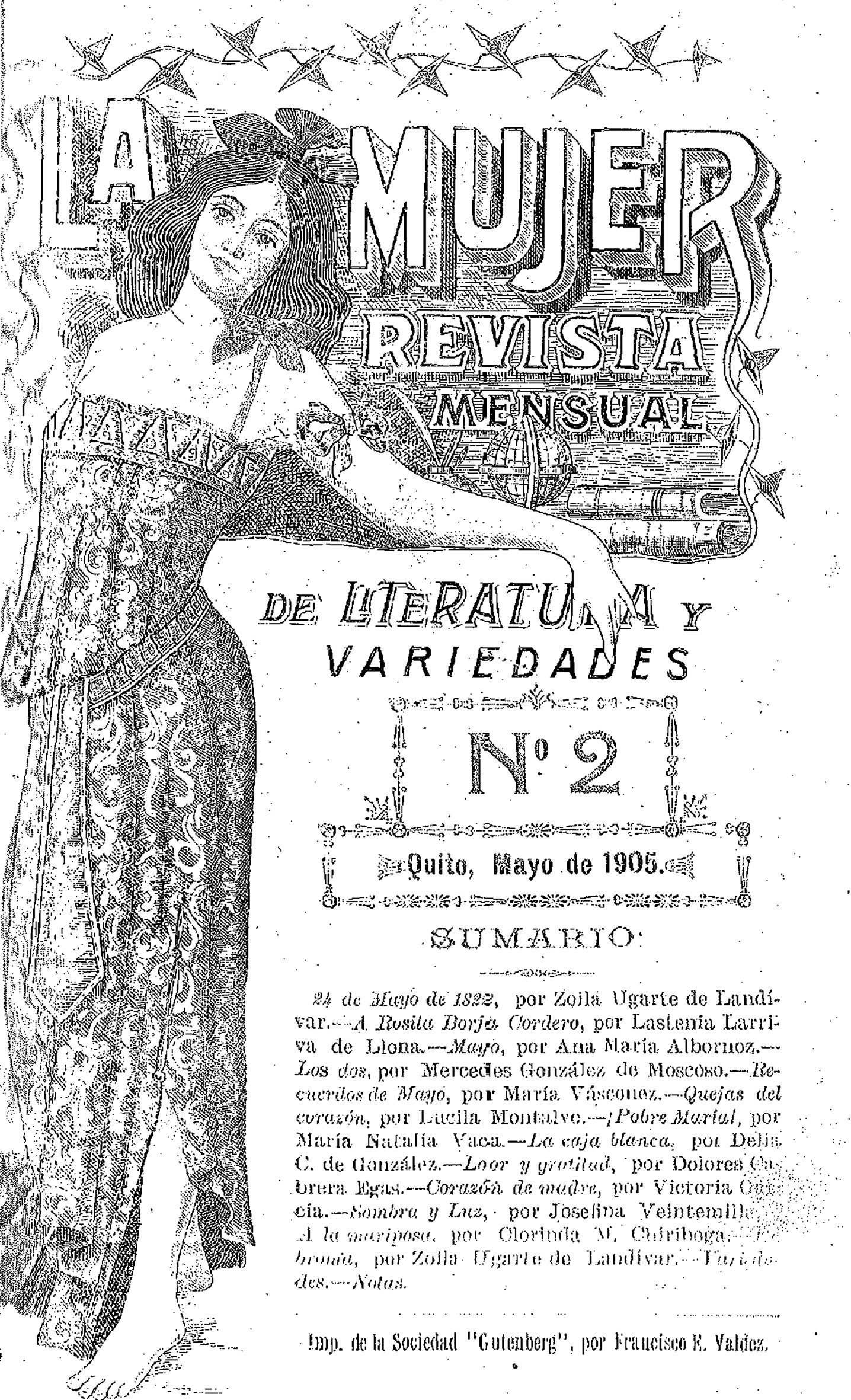 La Mujer - Revista Mensual de Literatura y Variedades